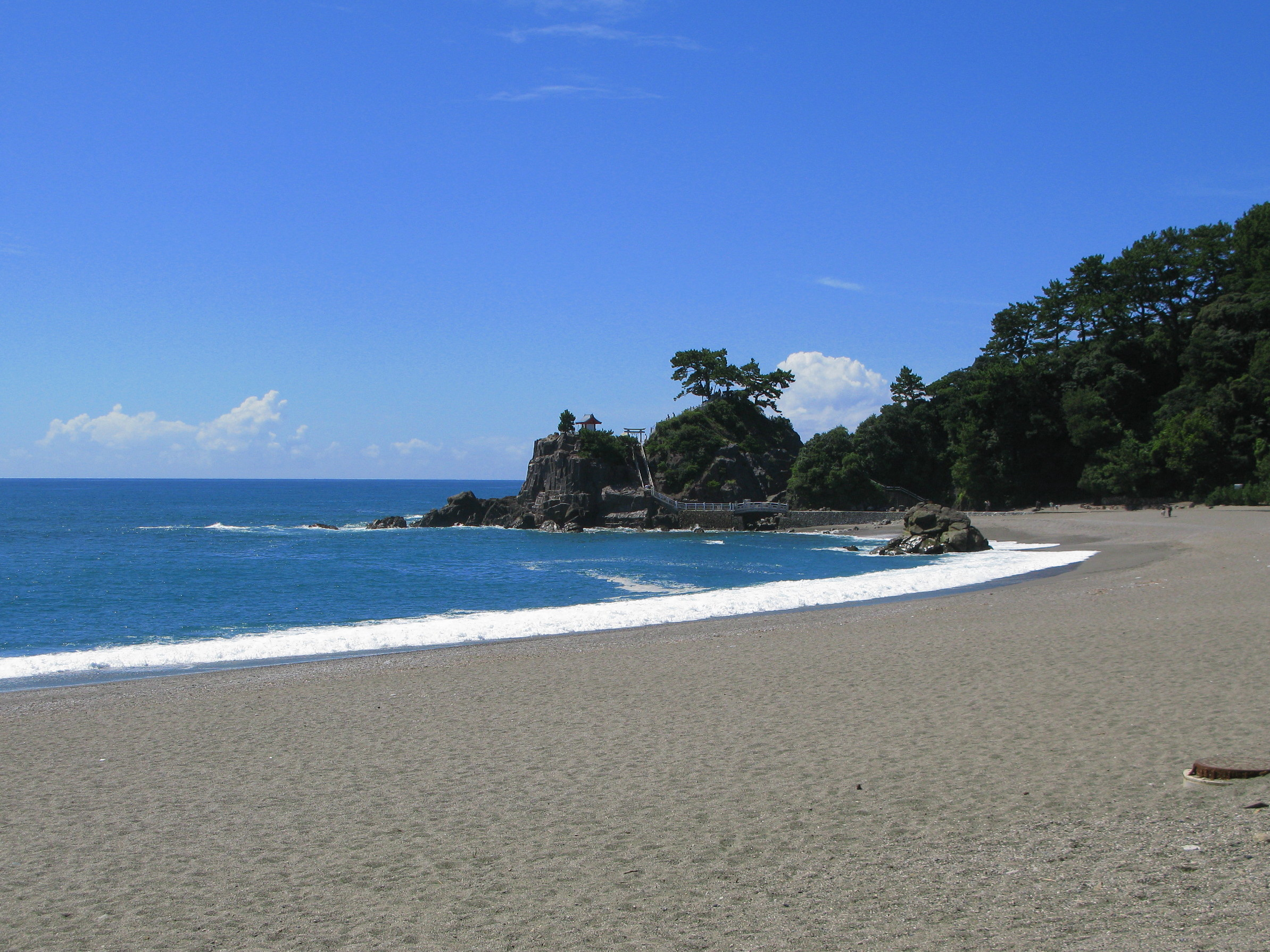 Katsurahama (Shimoryuzu Cape) (Kochi City, Kochi Prefecture, JAPAN)